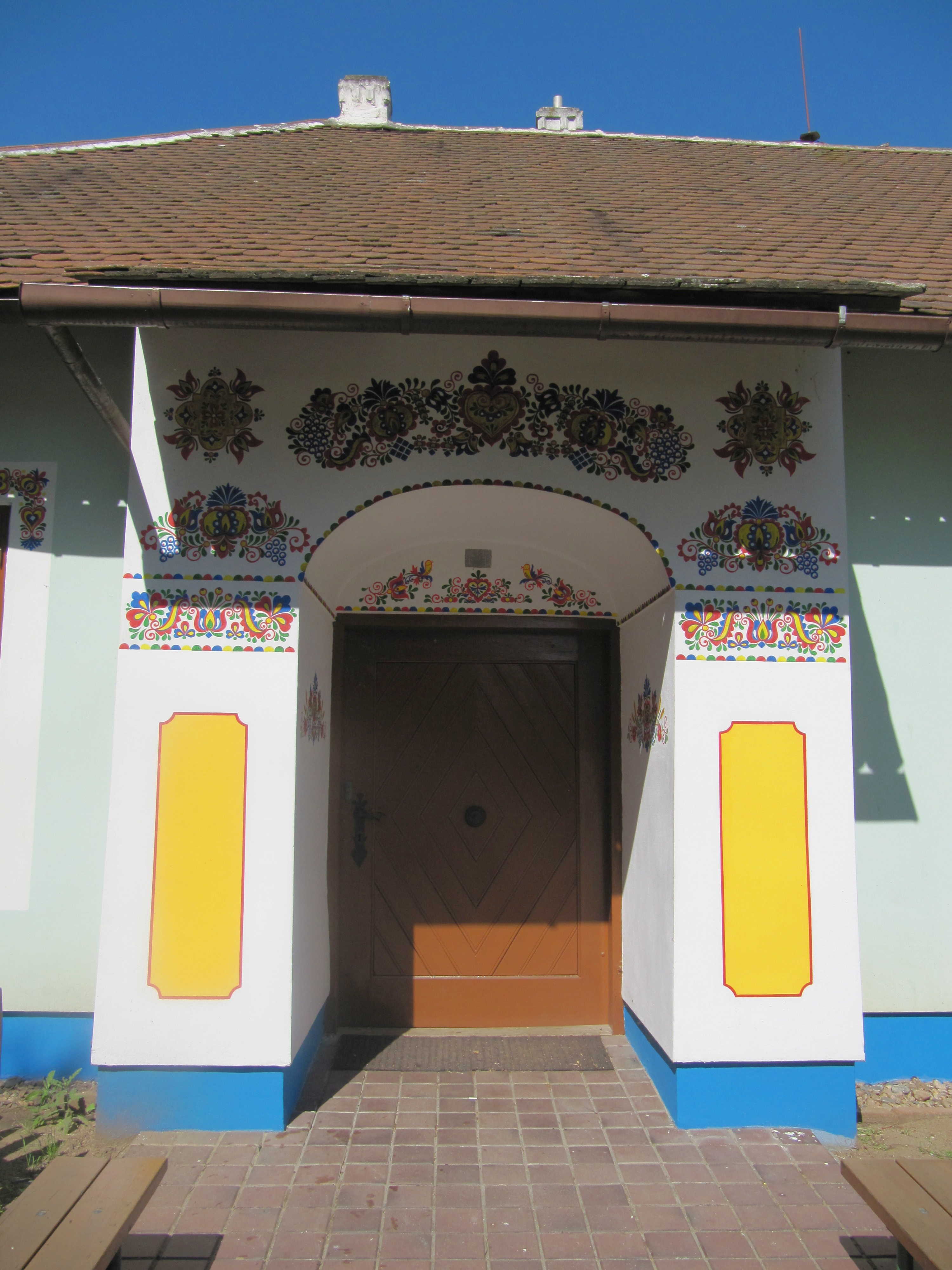 Tvrdonice in Břeclav District, Czech Republic. Moravian cottage. This photograph was taken within the scope of the third year of the 'Czech Municipalities Photographs' grant.